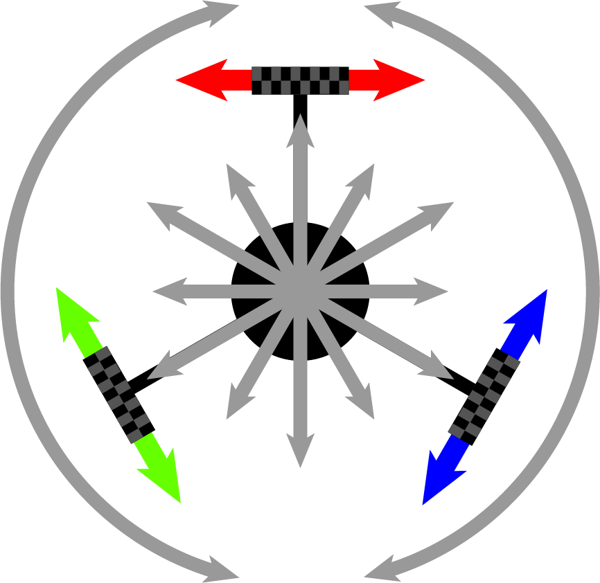 Gray Arrows: Platform Movement; Red, Blue Green Arrows: Wheel Movement